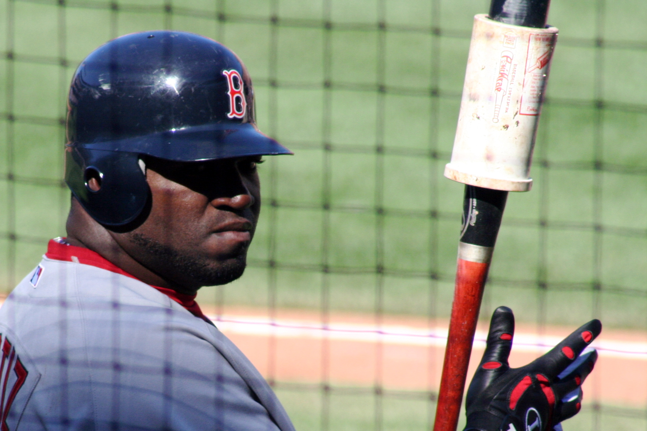 David Ortiz, mid warm up, turns back to the crowd.